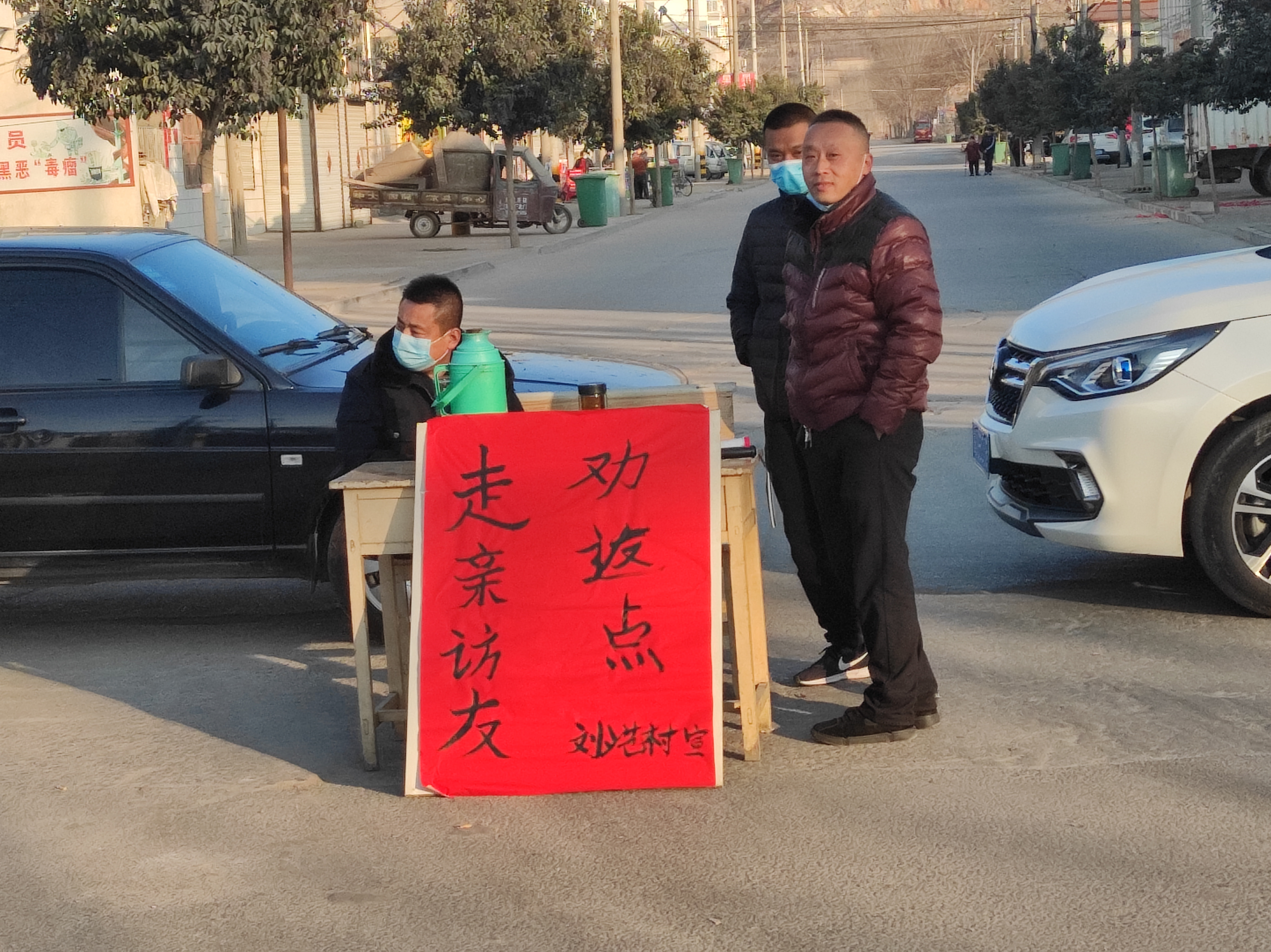 A roadblock and checkpoint temporarily set up to contain the 2019-20 Coronavirus outbreak outside a village in Dongping County of eastern province Shandong. This checkpoint was staffed by local villagers, and the two cars block access to the road. The red sign says "Return-persuading point for family visits". Visiting family members is a common practice in China during the Lunar New Year, and this checkpoint was set up to ask people who want to go out to visit their families to stay home.